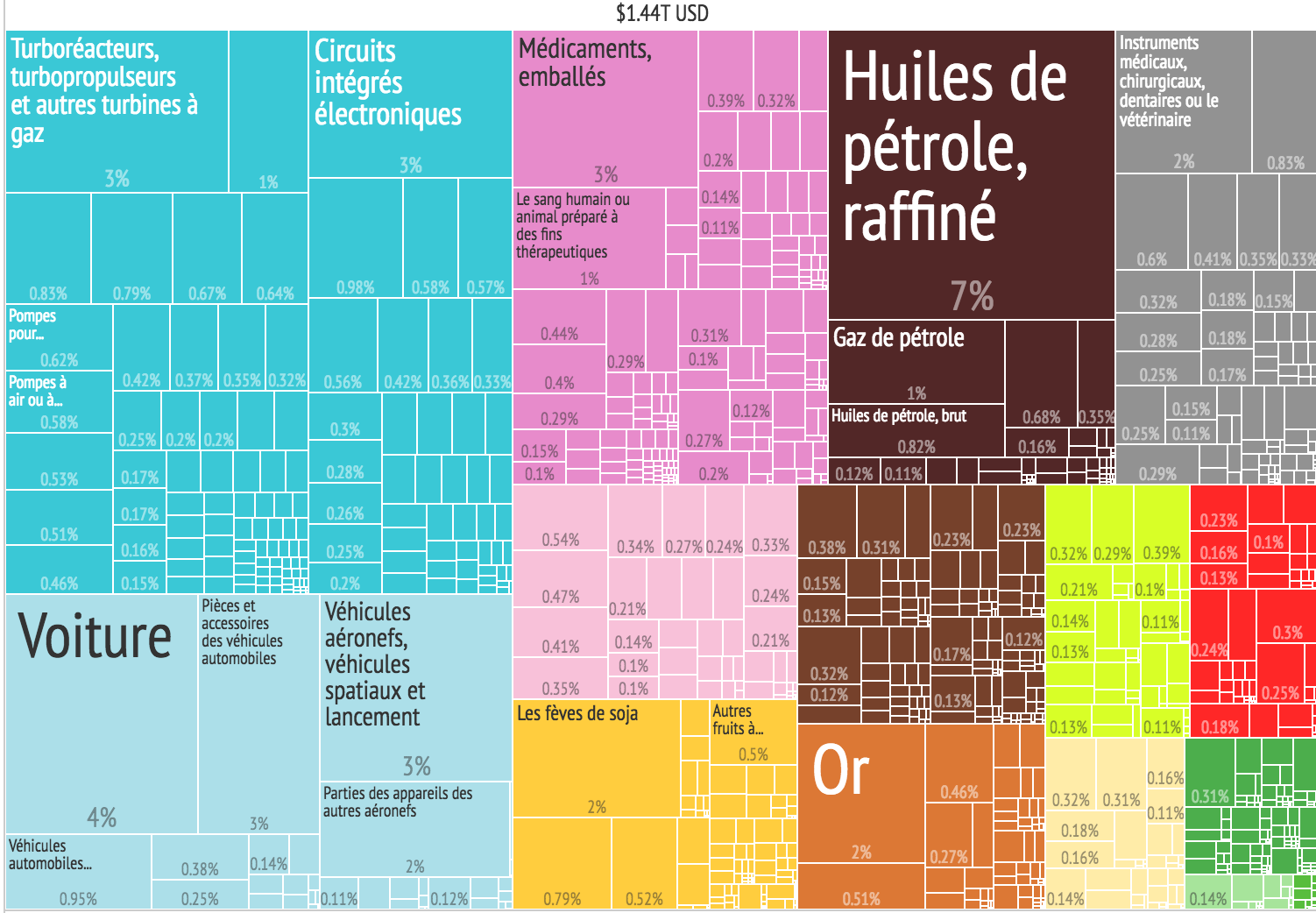 2014 produits etats unis exports treemap